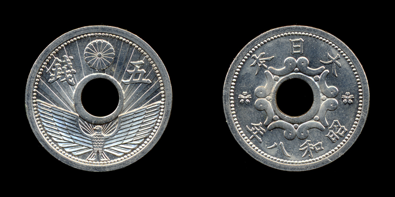 5sen-S8-nickel